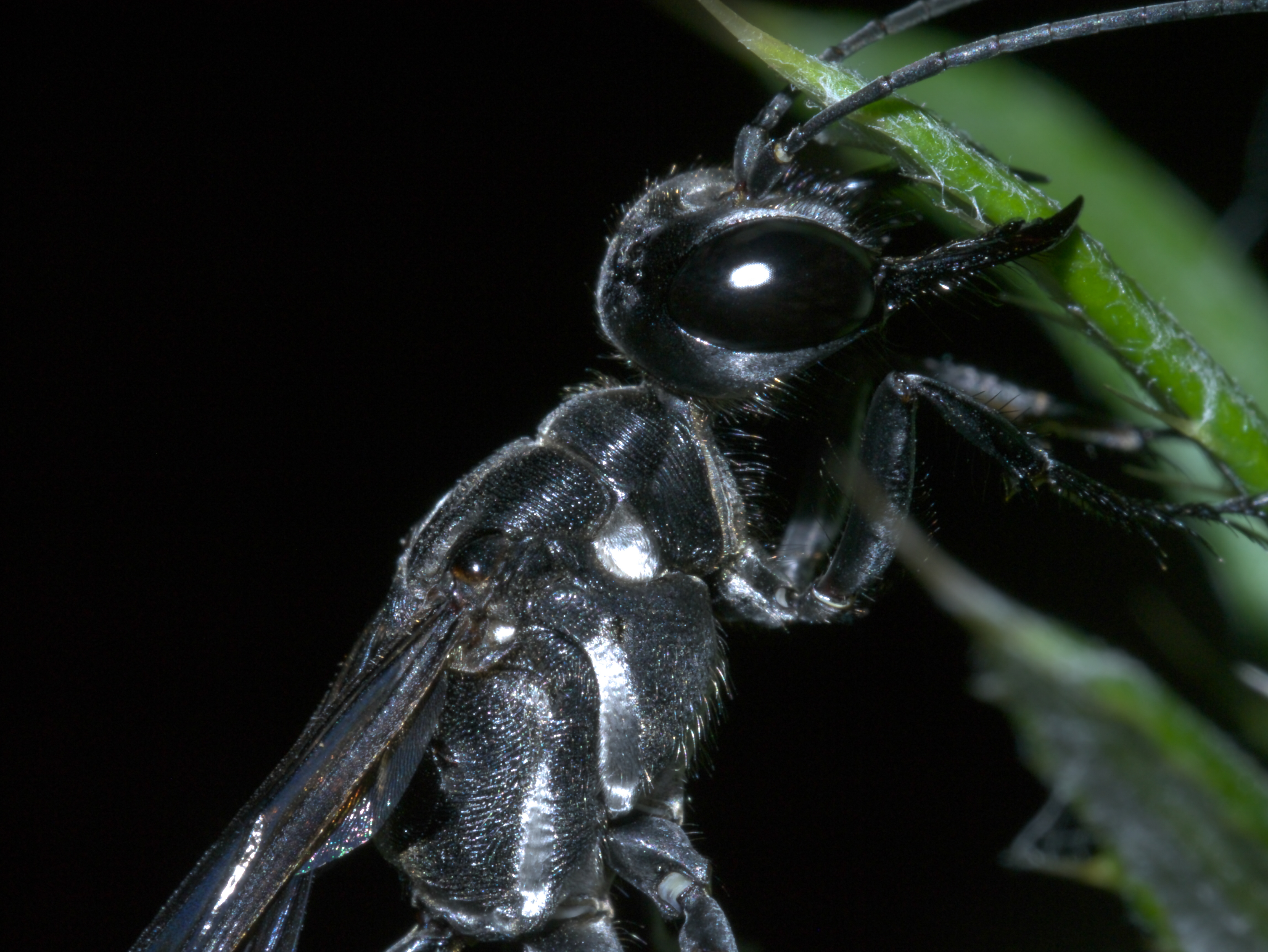 Ammophila procera, Family: Thread-waisted Wasps, ID Confidence: 87